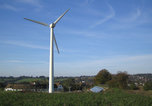 Kings Langley: Wind turbine RES (Renewable Energy Systems Ltd) purchased the old Ovaltine Egg Farm site in 2000, and converted the former chicken rearing house into a zero emissions building. The building is now named Beaufort Court and is RES's headquarters office. The building and the 225kW wind turbine were commissioned in November 2003, and the turbine has generated about 500,000 kWh of energy in the three years since. Also visible are a photovoltaic / thermal solar array set in the bank on the right side, and a biomass crop in the field. RES's website is here